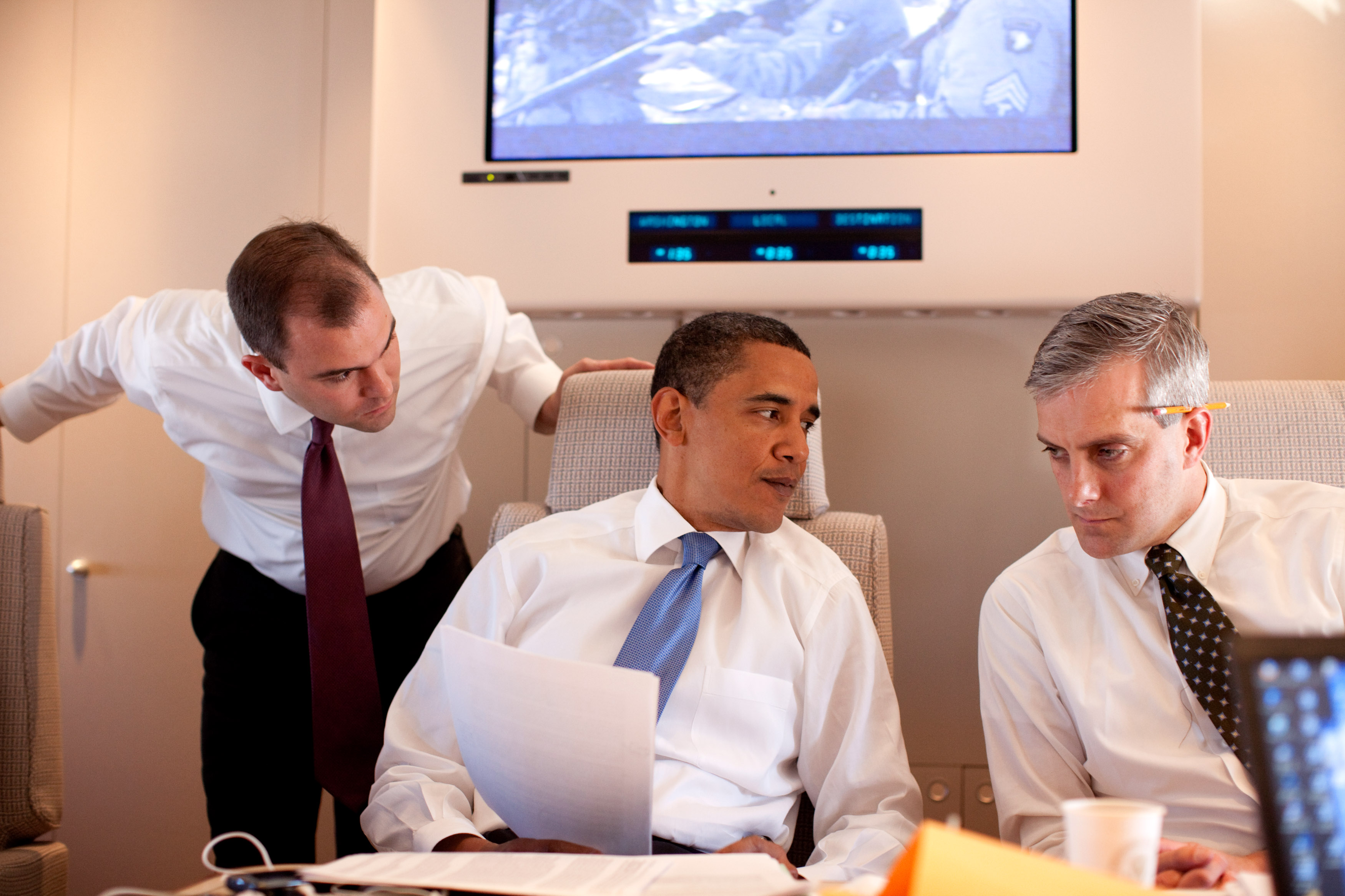 President Barack Obama confers about the Cairo speech with Deputy National Security Advisor for Strategic Communications Denis McDonough, right, and speechwriter Ben Rhodes on Air Force One en route to Cairo, Egypt, June 4, 2009. (Official White House photo by Pete Souza) This official White House photograph is in the public domain from a copyright perspective, so while restrictions such as personality or privacy rights may apply, in general, manipulations are allowed.